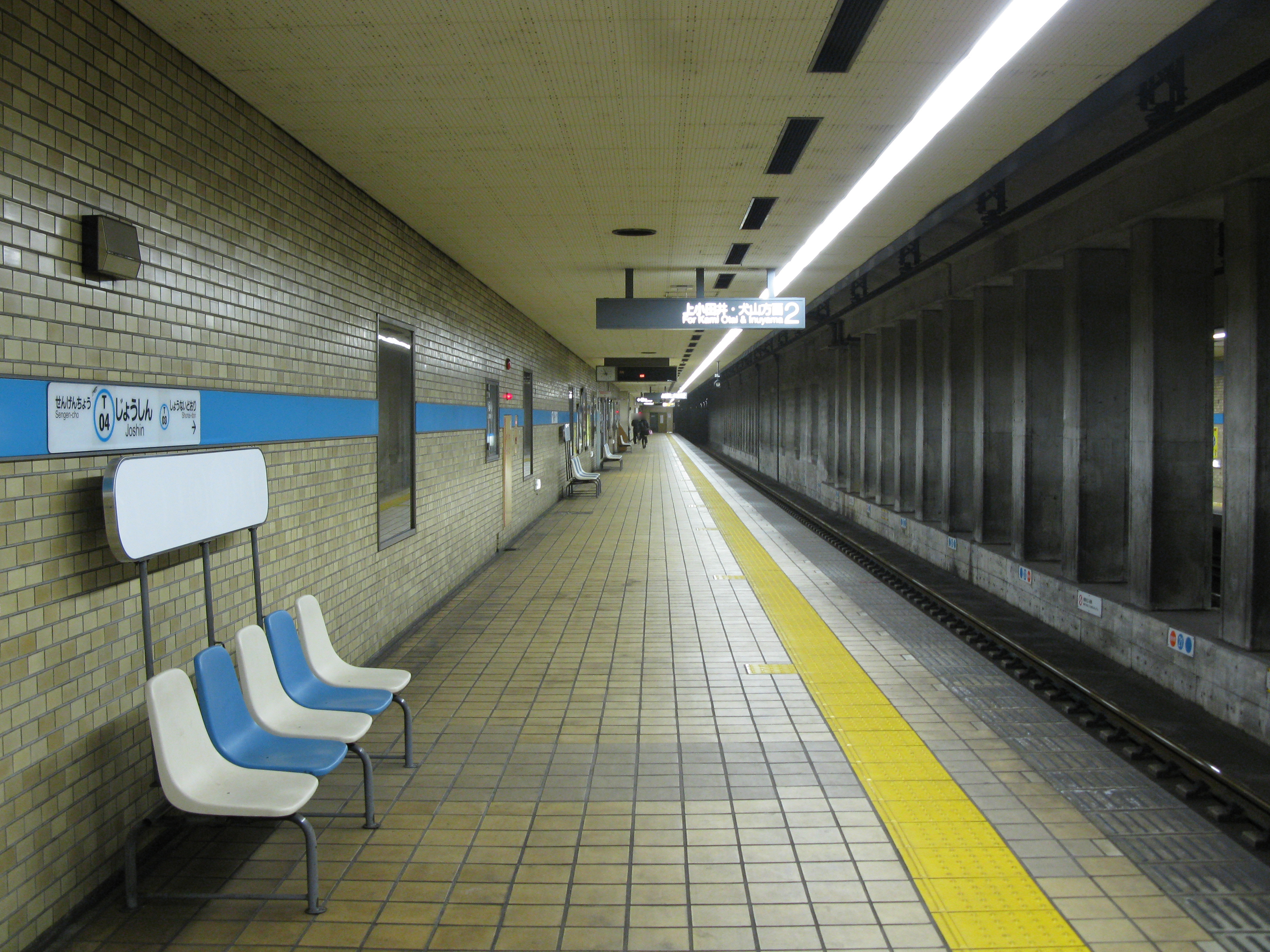 Jōshin Station platform (Nagoya Municipal Subway Tsurumai Line)